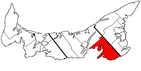 Adapted from existing Prince Edward Island election results maps to depict a specific electoral district.